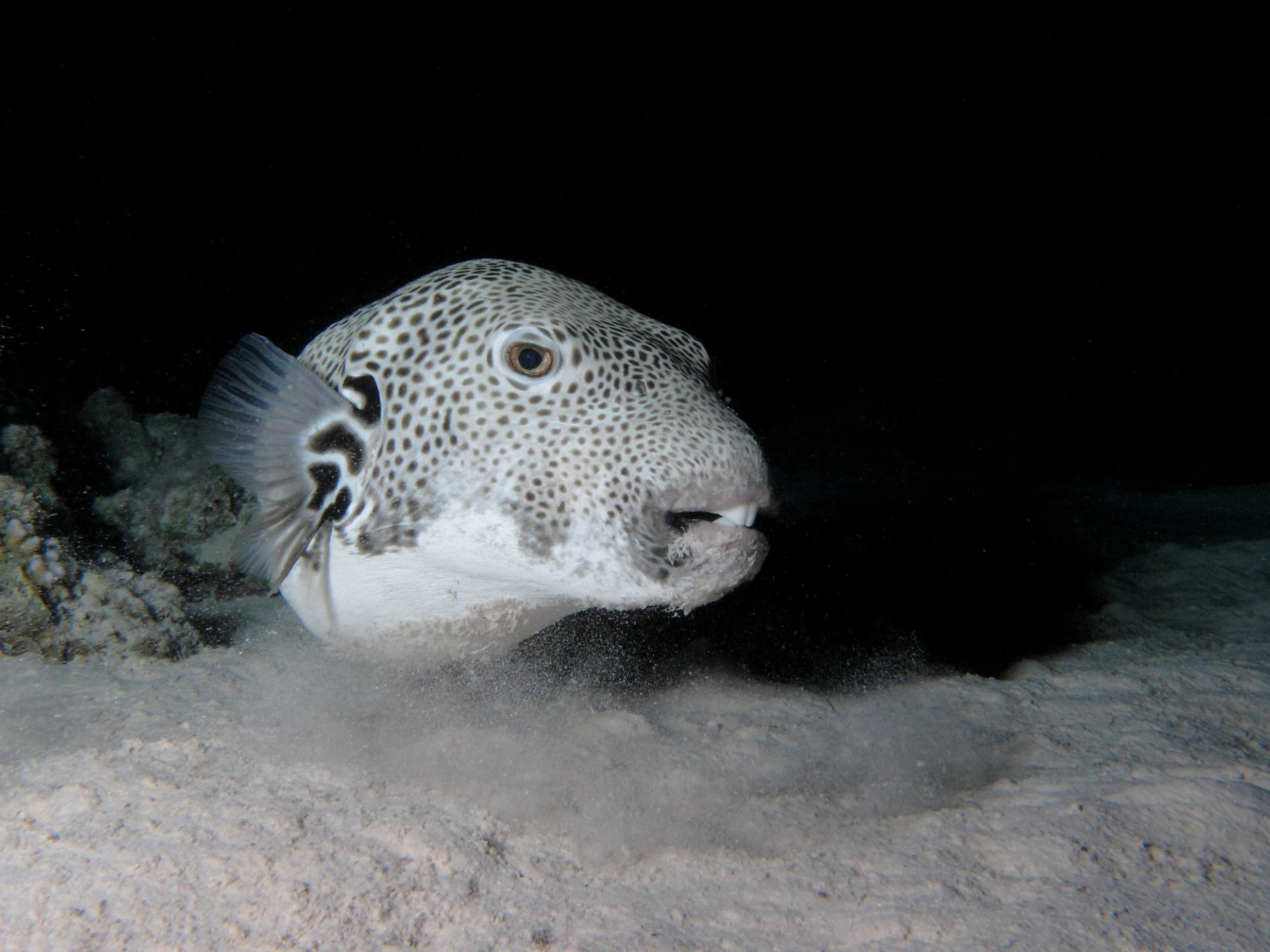 Sleepy starry puffer (Arothron stellatus) at el Fanus West Reef (Red Sea, Egypt)